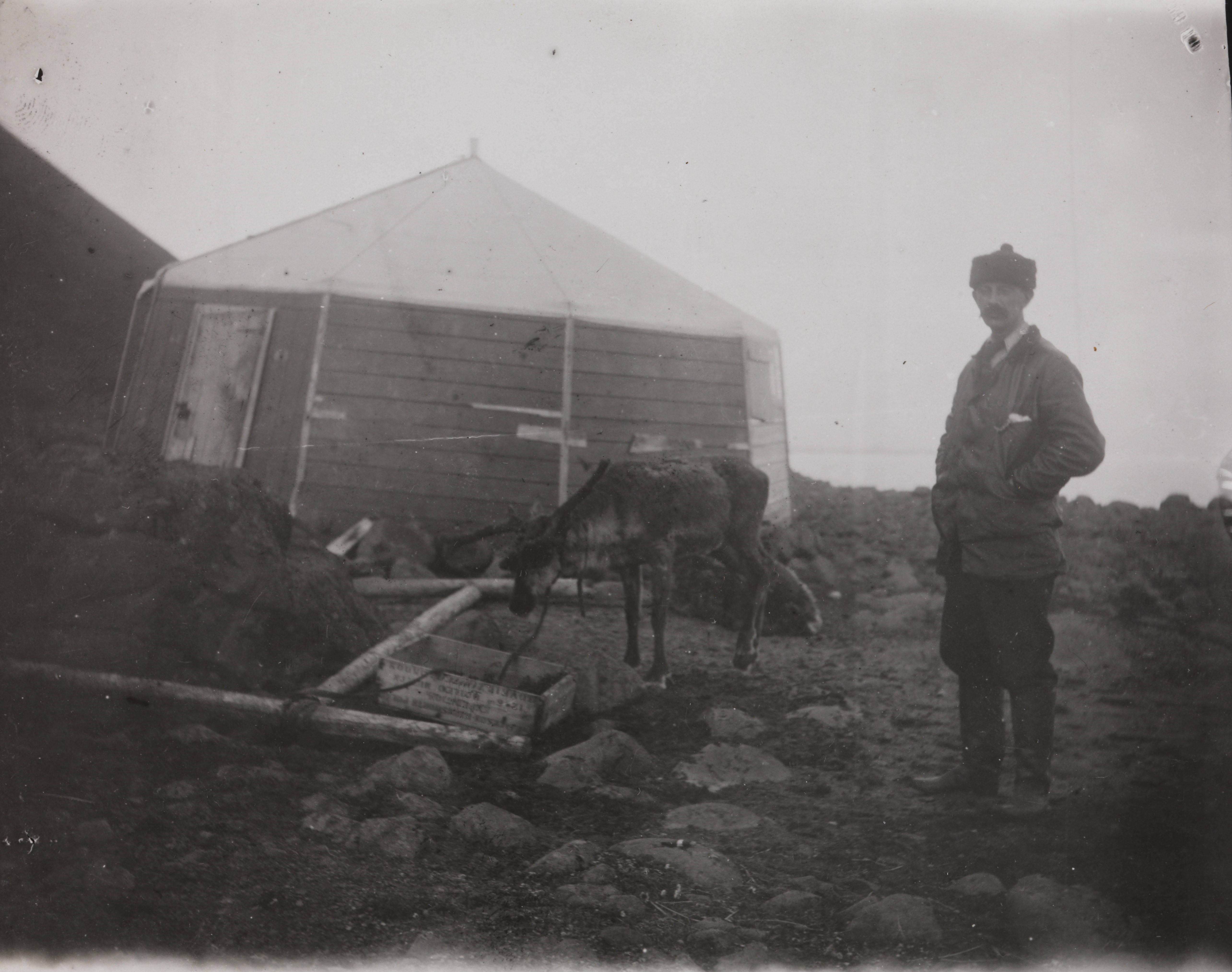 Frederick George Jackson, British officer, arctic researcher and leader of the expedition to Franz Joseph Land 1894-1897, and a reindeer in front of one of the tents in Elmwood. One of the pictures from the expedition with arctic ship toward the North Pole in the period June 24, 1893 to August 13, 1896. According to the plan, the ship was to drift in the ice with the ocean current from the coast of Siberia across the North Pole to Greenland. In March 1895, Fridtjof Nansen, together with a companion, set out with dogsledges on a hazardous expedition on skis, in an attempt to reach the pole itself.